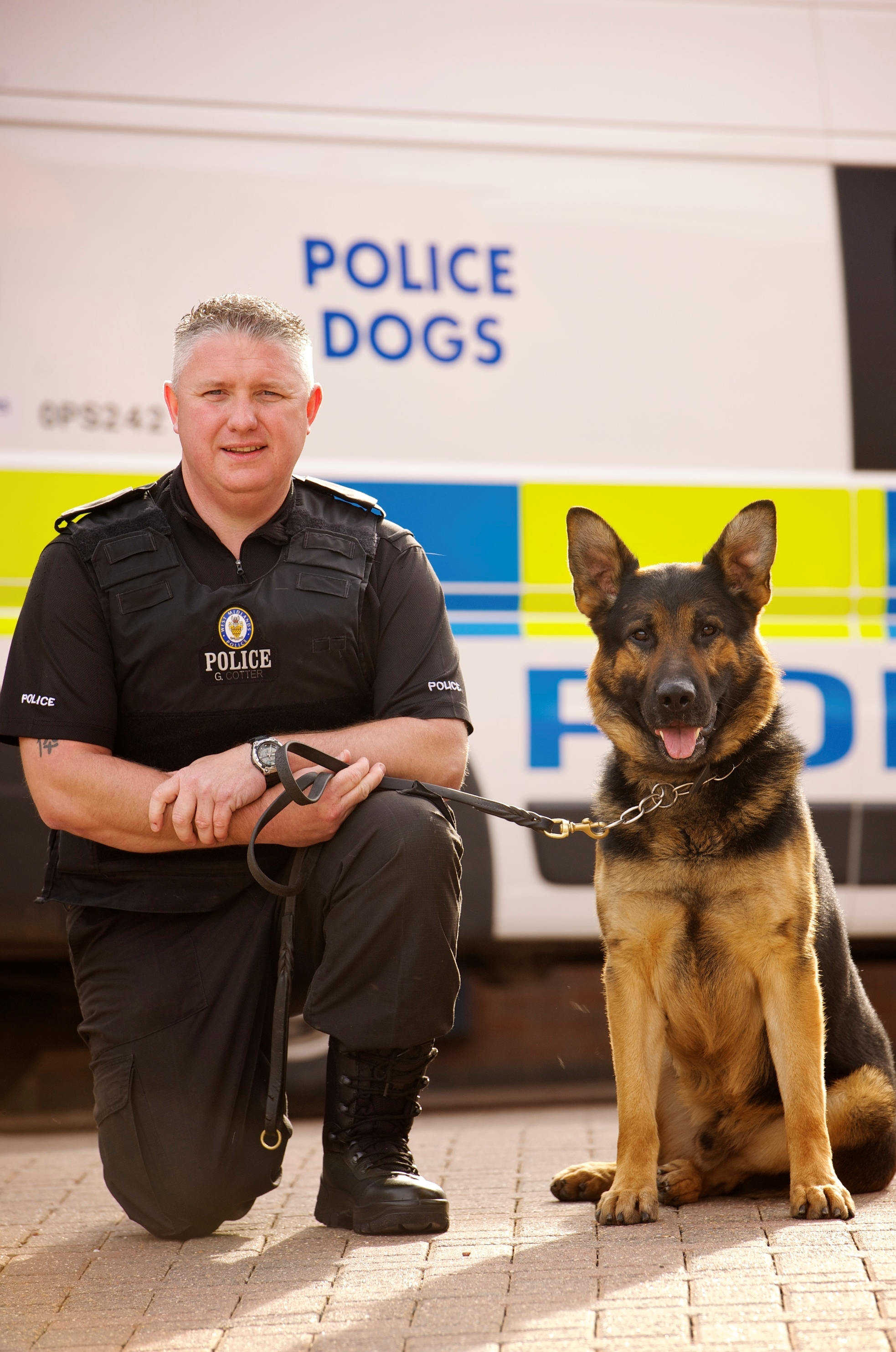 This photo shows Axel the police dog alongside his handler PC Gez Cotter. Axel and his handler were responsible for tracking down two criminals who had tried to escape police by driving at 180mph. Axel managed to track the two men to a block of flats in Wolverhampton following the pursuit. Due to his high quality training and fearless pursuit skills, Axel managed to locate both men despite them breaking a bottle of aftershave onto the floor in a bid to hide their scent, and / or cause injury to the dog. Thanks to Axel and his handler, as well as further members of the Dogs Unit and Force Traffic, both men were arrested and later jailed for a combined total of 13 years.